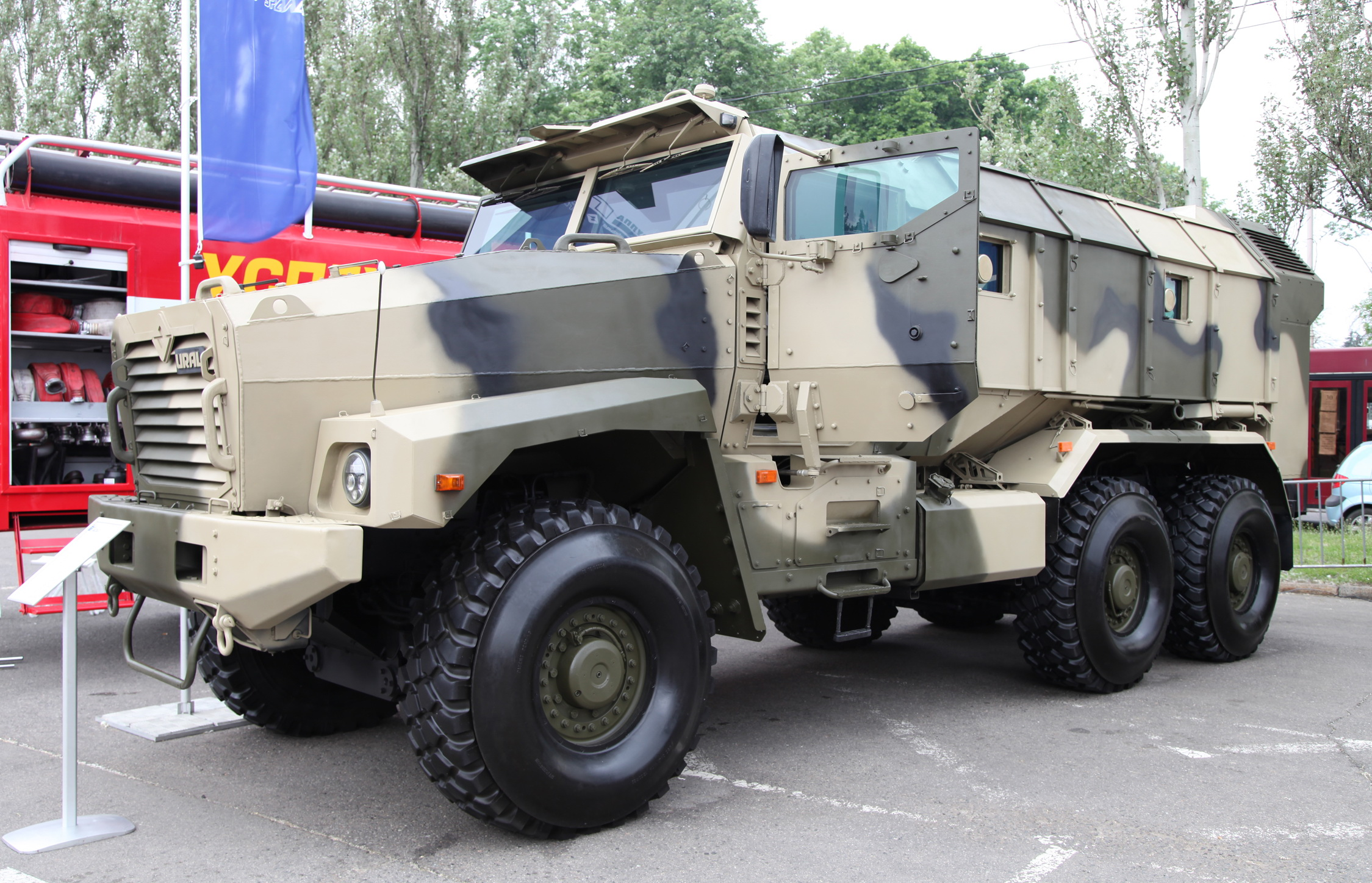 Ural Typhoon armored vehicle